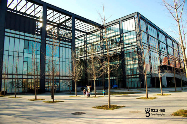 gym